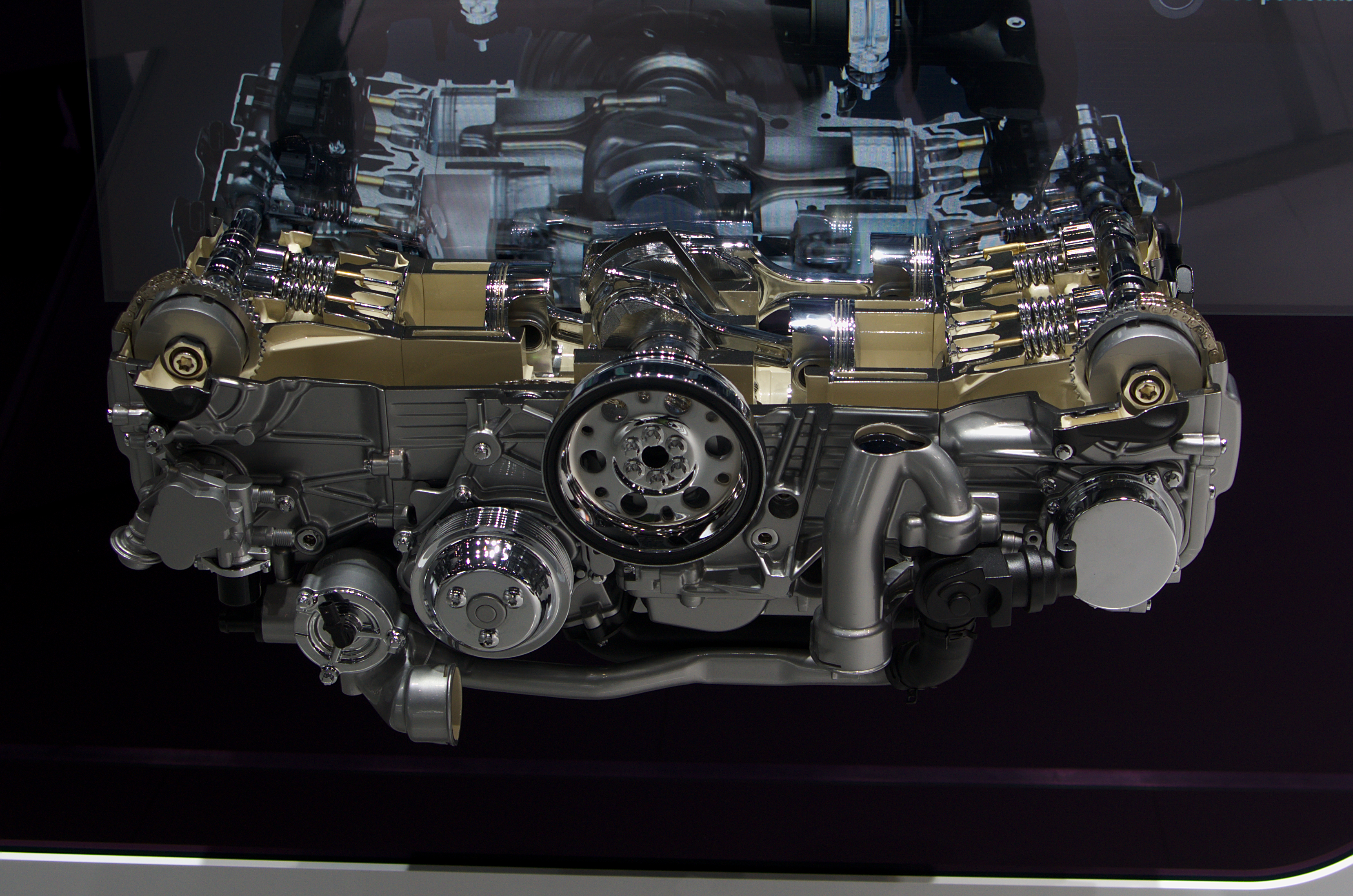 Geneva MotorShow 2013 - Porsche motor